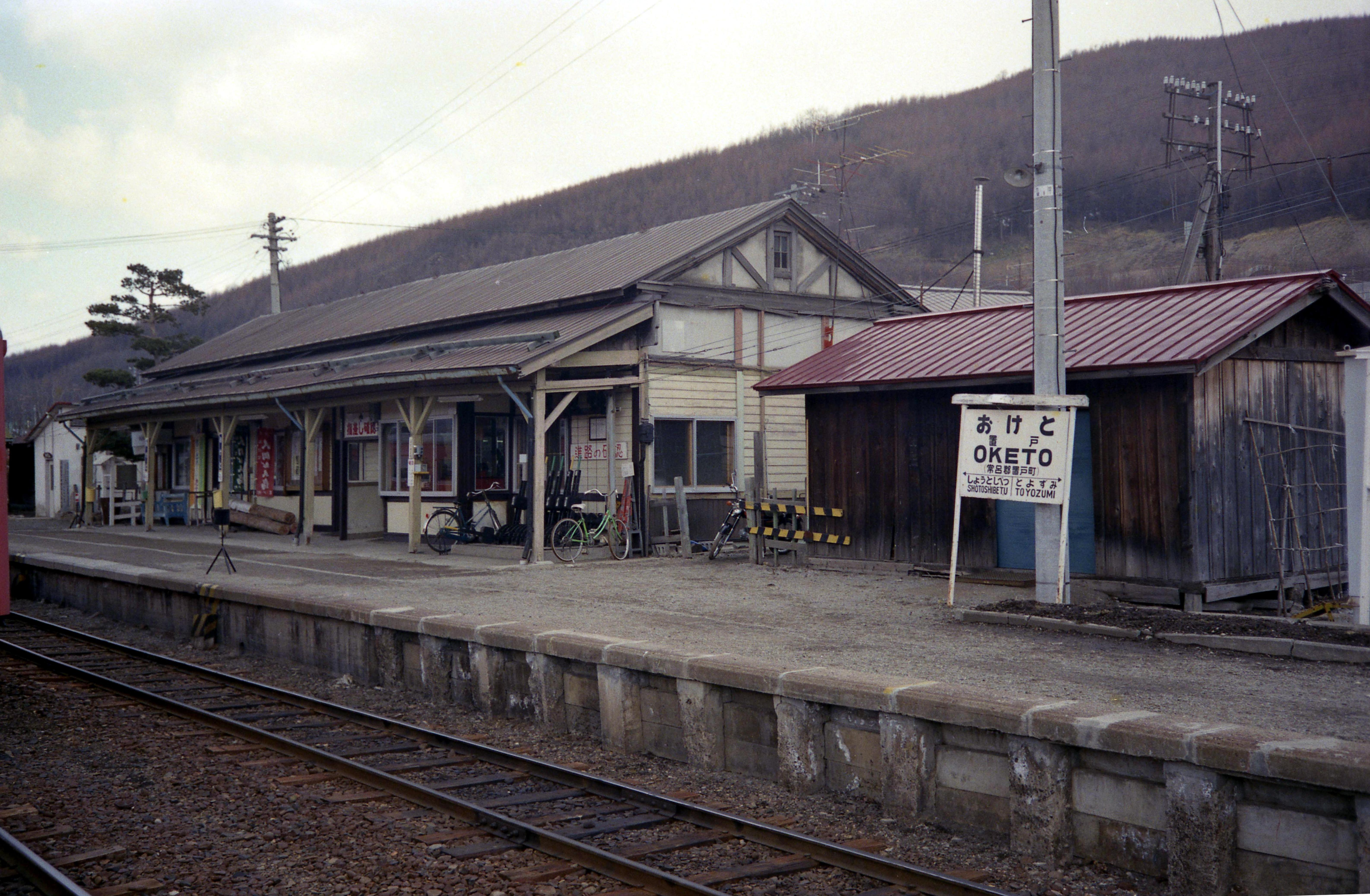 the building of Oketo Station,Hokkaido Railway Company Chihoku Line(before abolished)